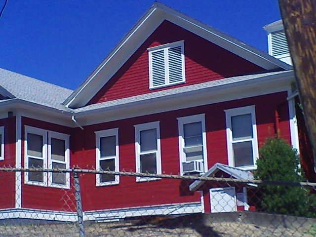 Yankton School House, now home of Yankton Arthur Academy.